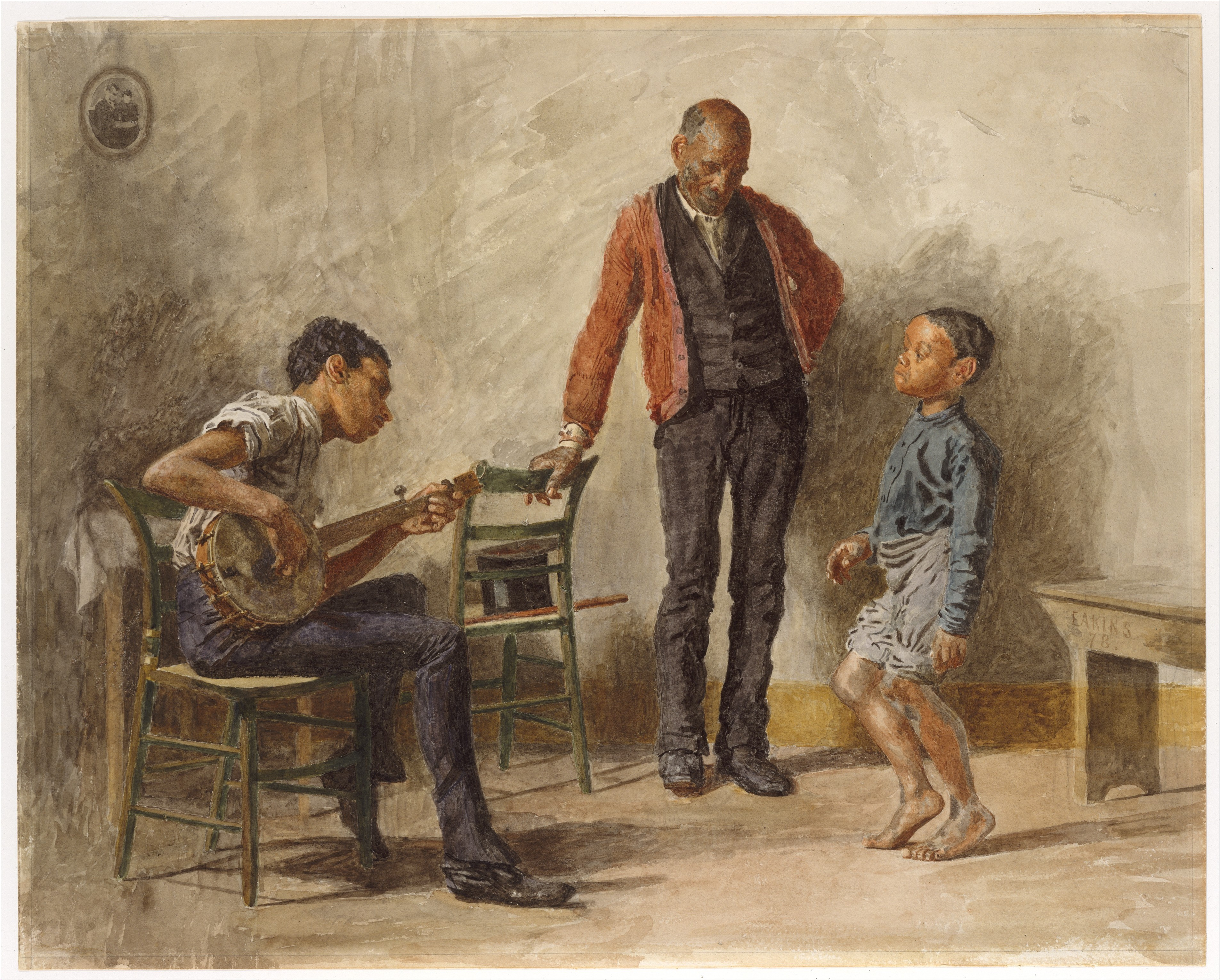 Watercolor on off-white wove paper